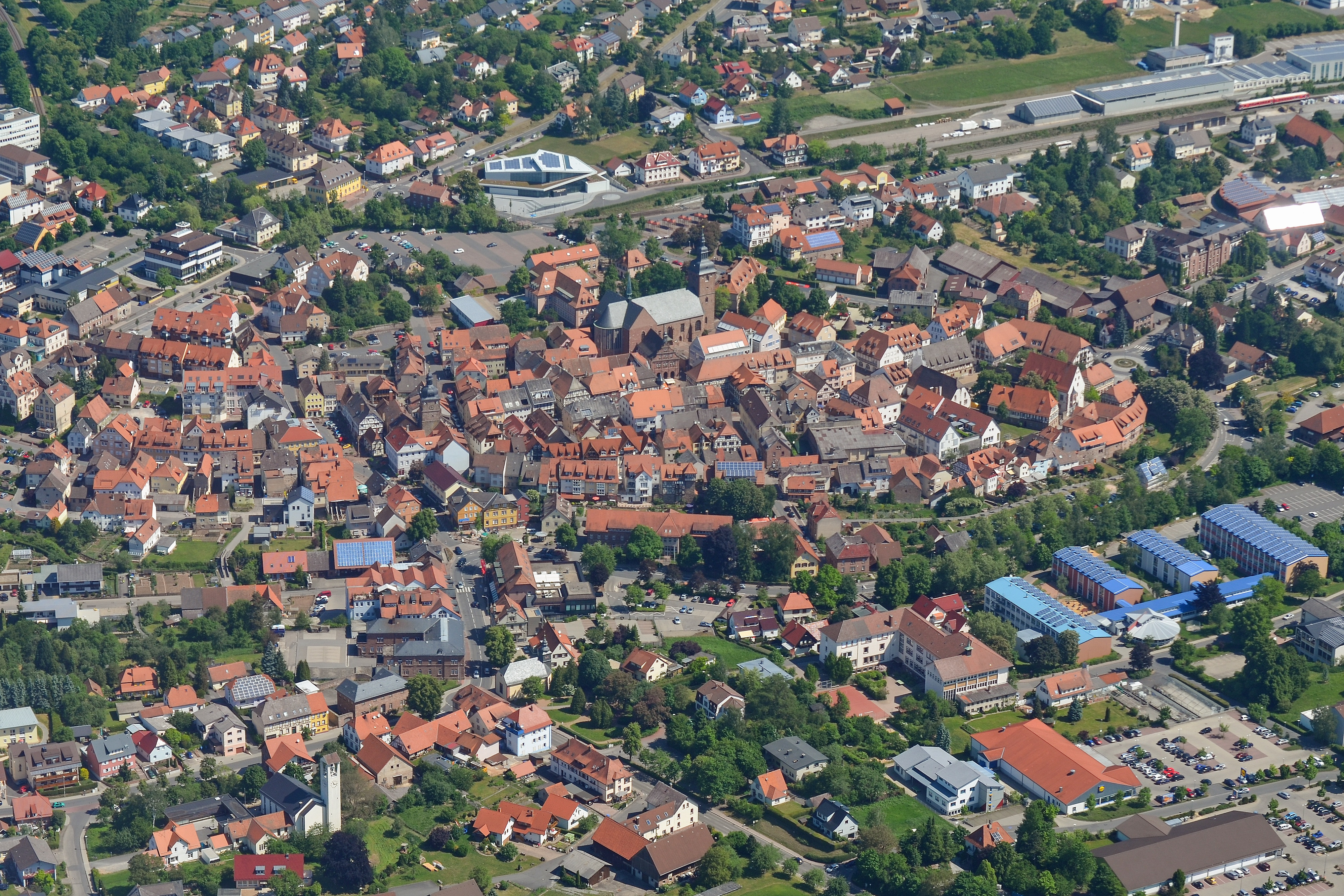 Buchen (Odenwald), Germany, aerial photograph of the city center from South West